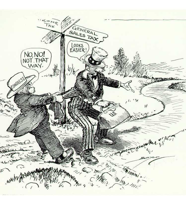 Title: "No, No! Not That Way" Location: Library of Congress, Prints and Photographs Division